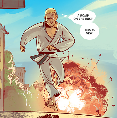 Part of the Superputin webcomic by Sergei Kalenik, depicting Russian prime minister Vladimir Putin as a martial arts superhero